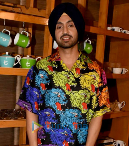 Diljit Dosanjh during Soorma promotion 05